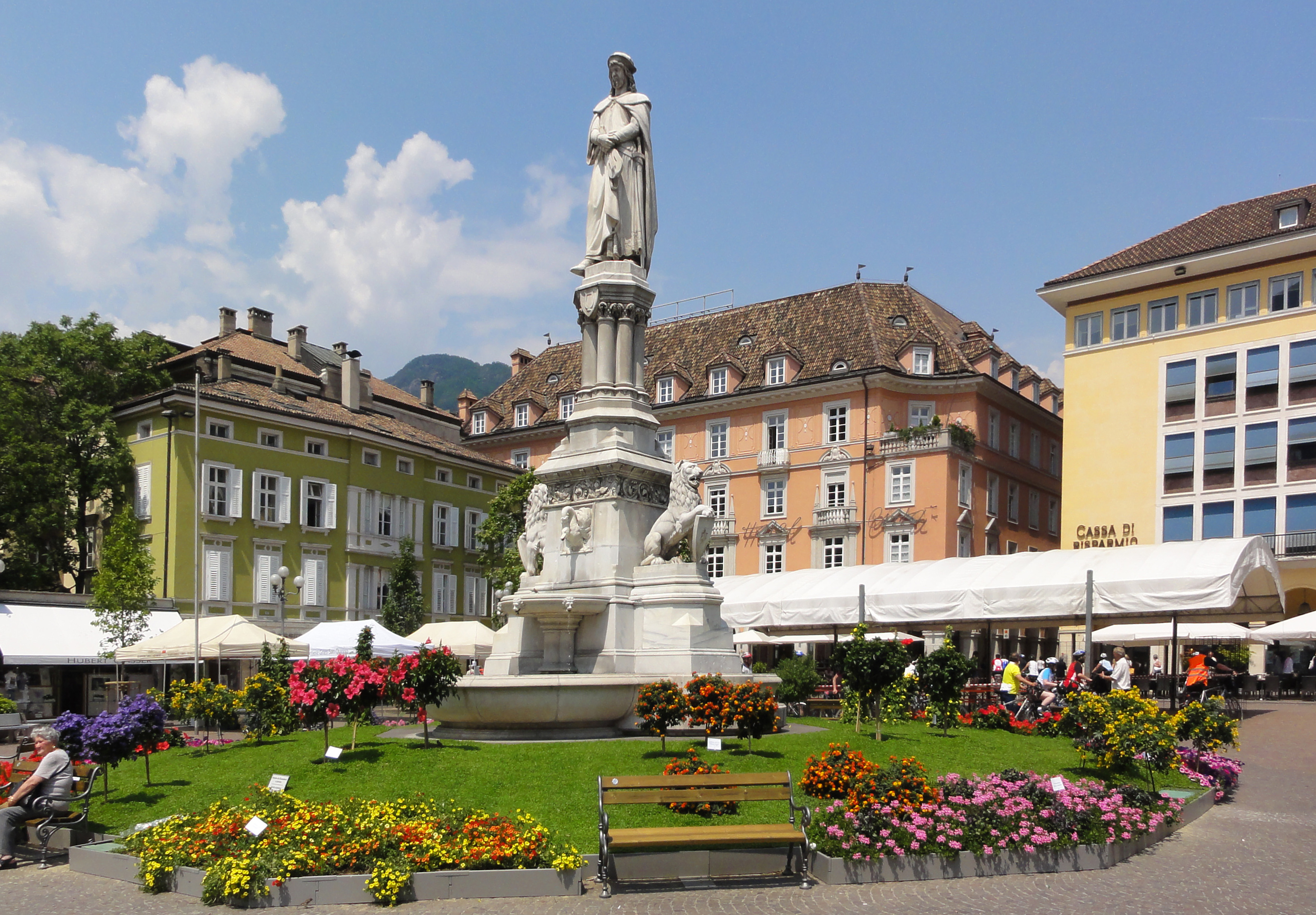 South Tyrol — Bolzano/Bozen — Waltherplatz